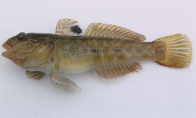 A large round goby (Neogobius melanostomus) caught in Netherlands